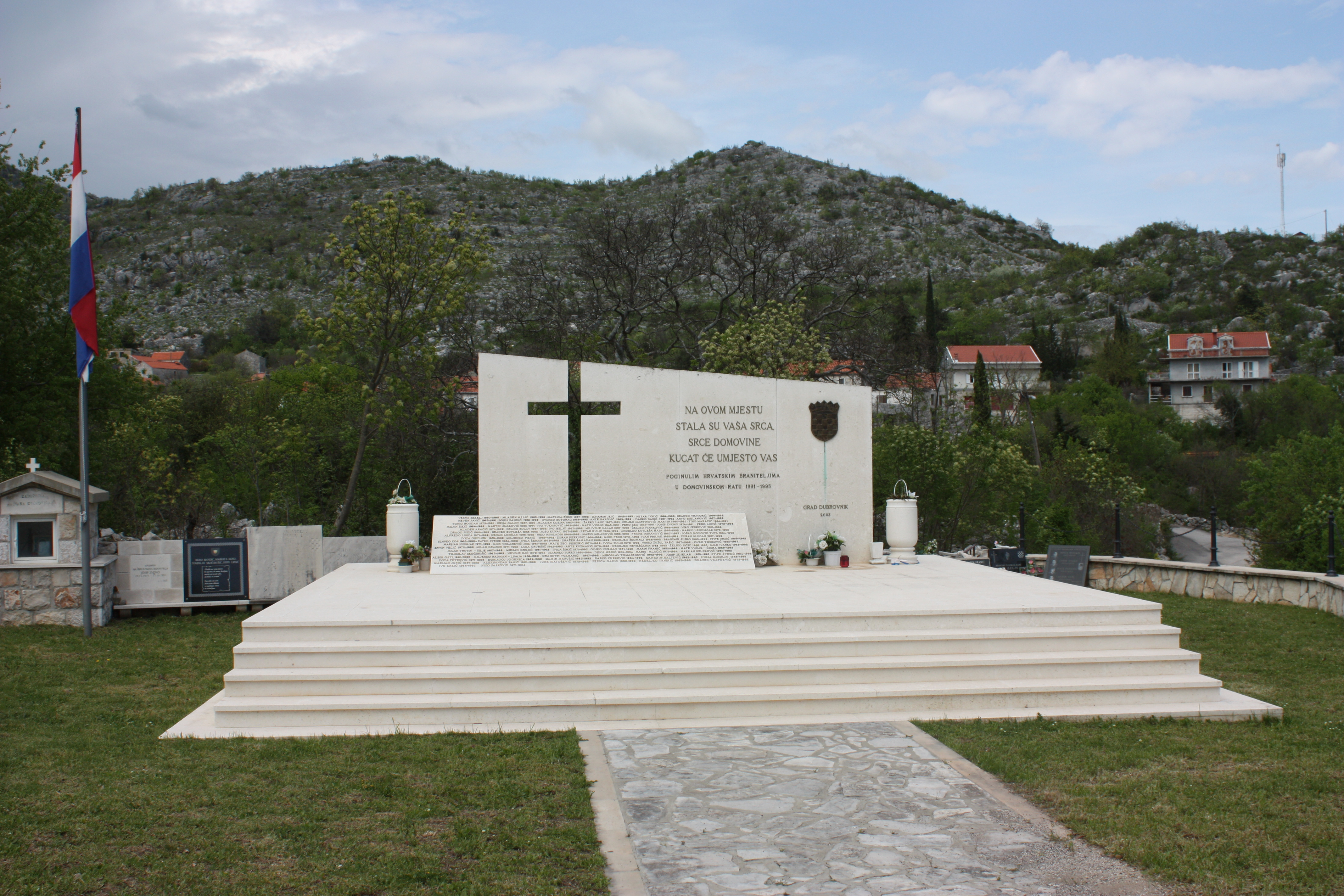 Memorial monument for all KIA Croatian soldiers near Osojnik